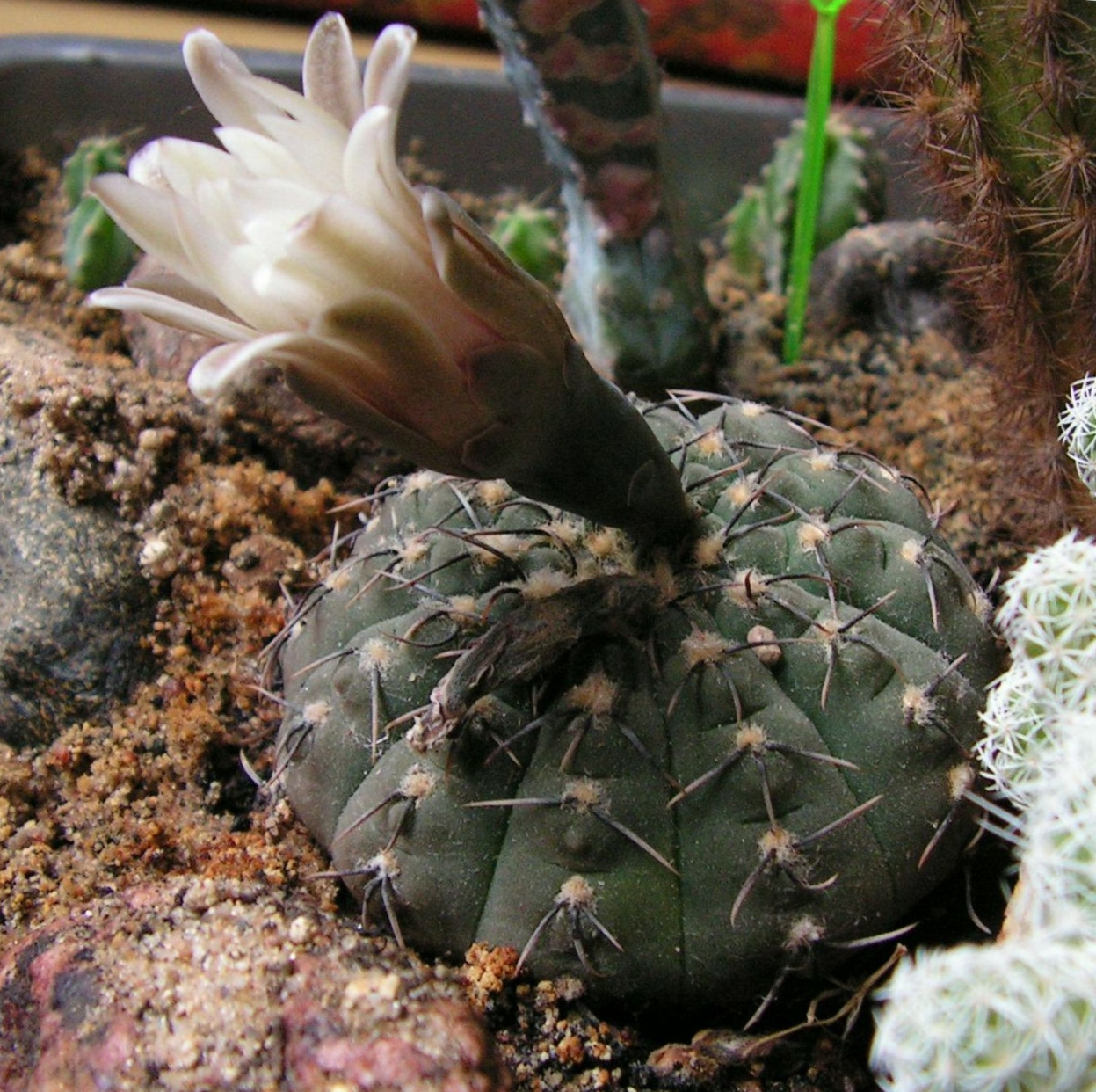 Gymnocalycium stellatum. . The age of the plant is appr. 35 years, its diameter is 7 cm, its height is 3 cm.